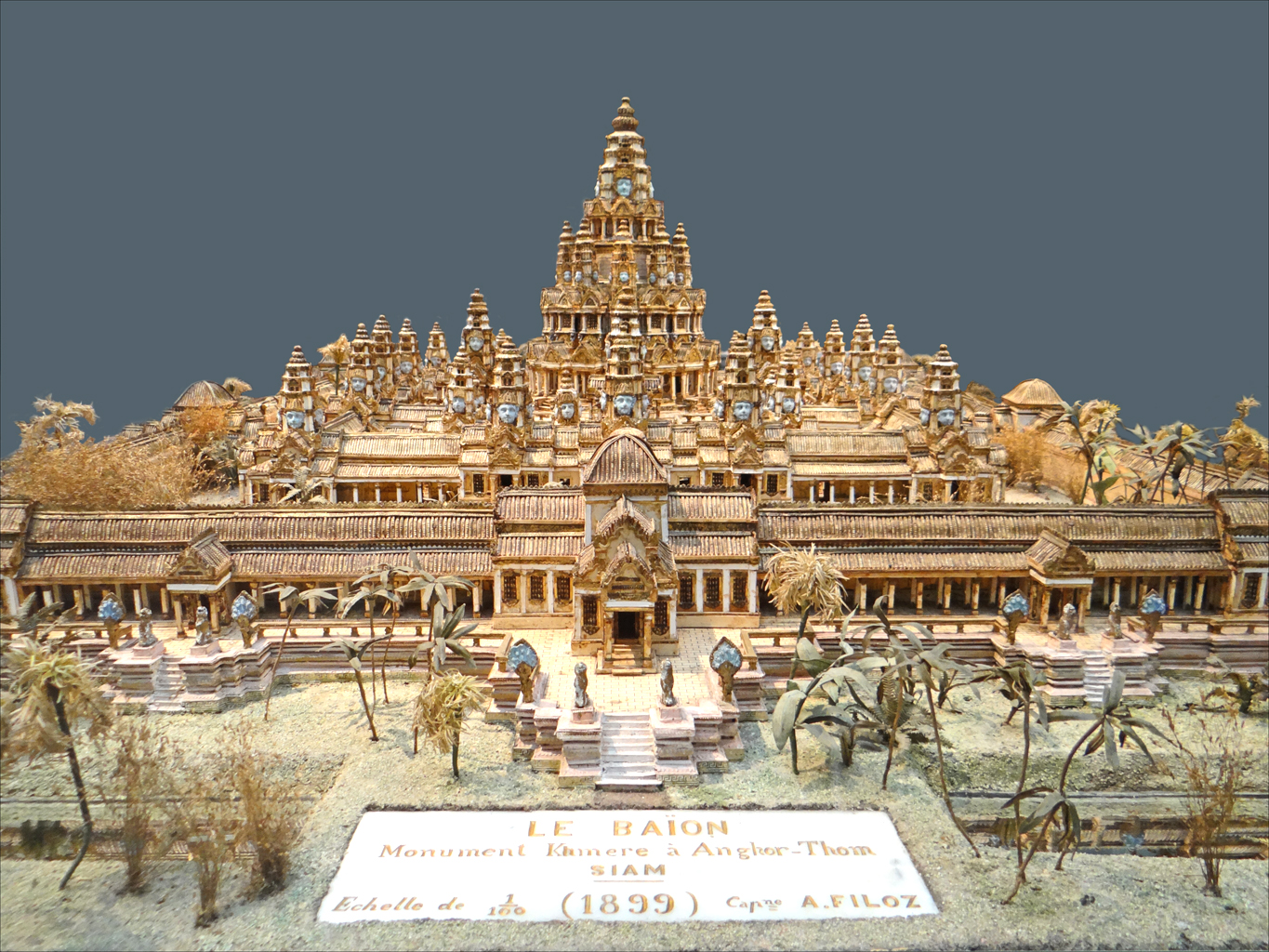 An artists conceptualization of one of the temples at Angkor Thom as it once looked, before it became ruins. Angkor Thom (Khmer: អង្គរធំ; literally: "Great City"), located in present day Cambodia, was the last and most enduring capital city of the Khmer empire. It was established in the late twelfth century by King Jayavarman VII. It covers an area of 9 km², within which are located several monuments from earlier eras as well as those established by Jayavarman and his successors. At the centre of the city is Jayavarman's state temple, the Bayon, with the other major sites clustered around the Victory Square immediately to the north. Angkor Thom was established as the capital of Jayavarman VII's empire, and was the centre of his massive building programme. One inscription found in the city refers to Jayavarman as the groom and the city as his bride. Maquette du Bayon datant de 1899 présentée dans l'exposition Angkor Thom (musée Guimet)